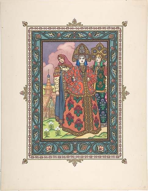 Illustration for "La Belle Vassilissa"